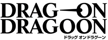 The text logo for the Drakengard series as it appears in Japan. The logo only varies a little between each title.